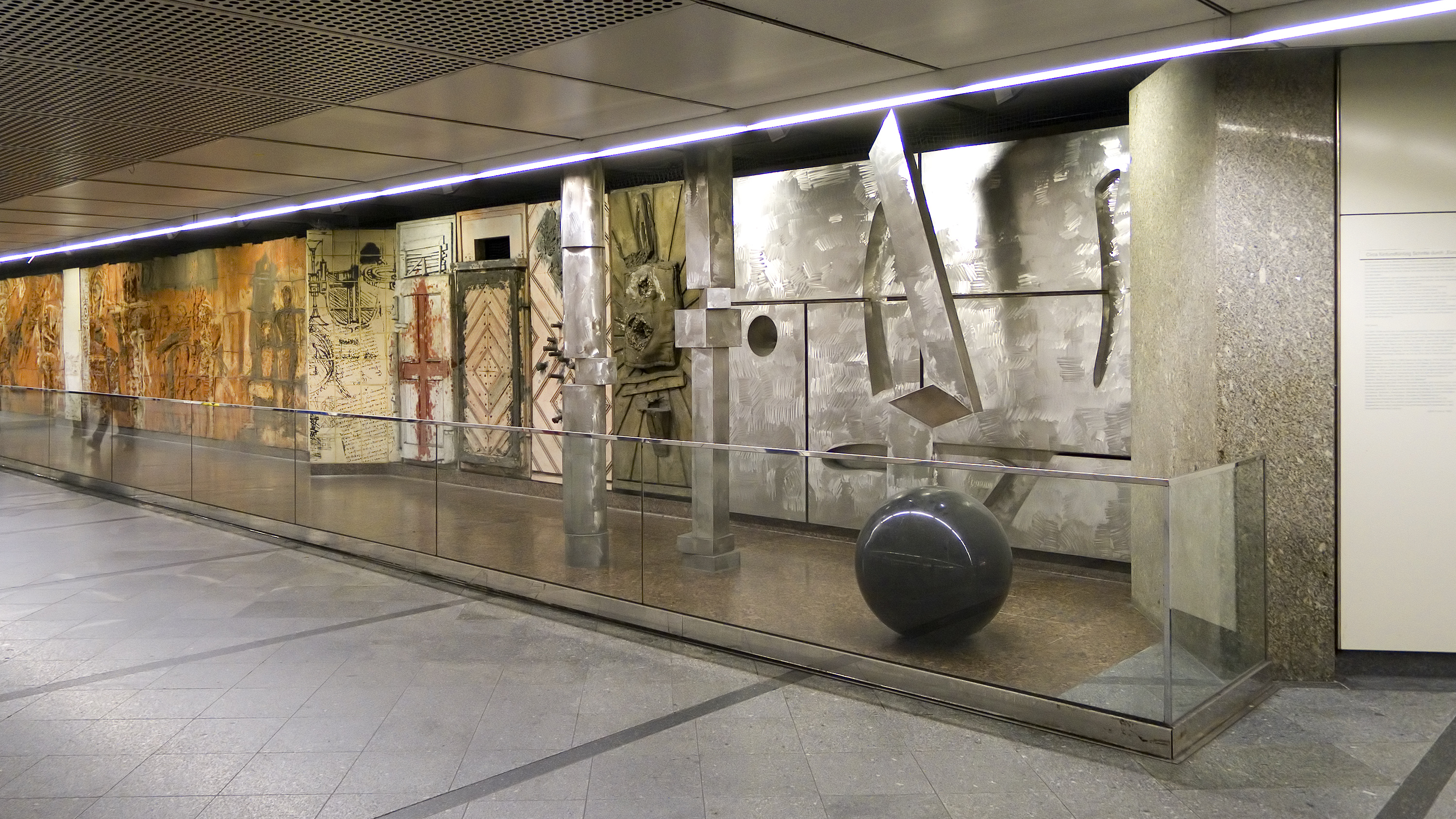 Underground station Wien Westbahnhof in Vienna